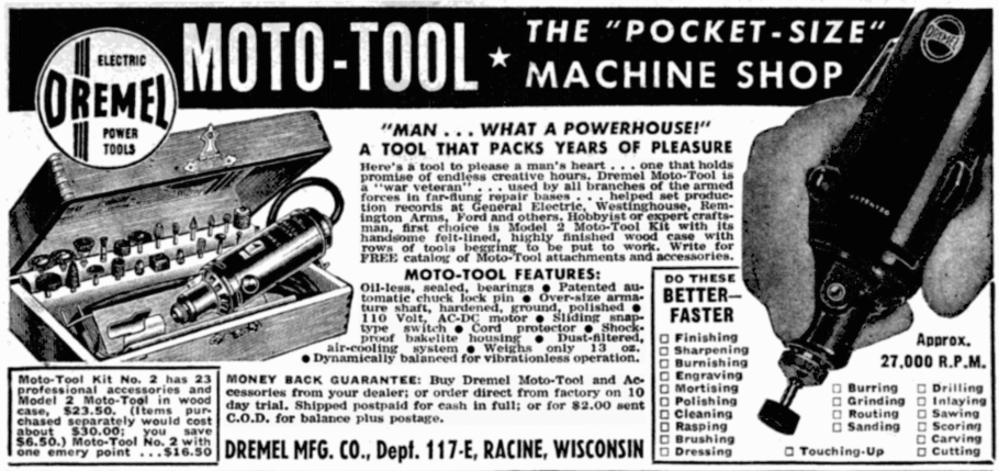 1946 advertisement for the Dremel Moto-Tool.